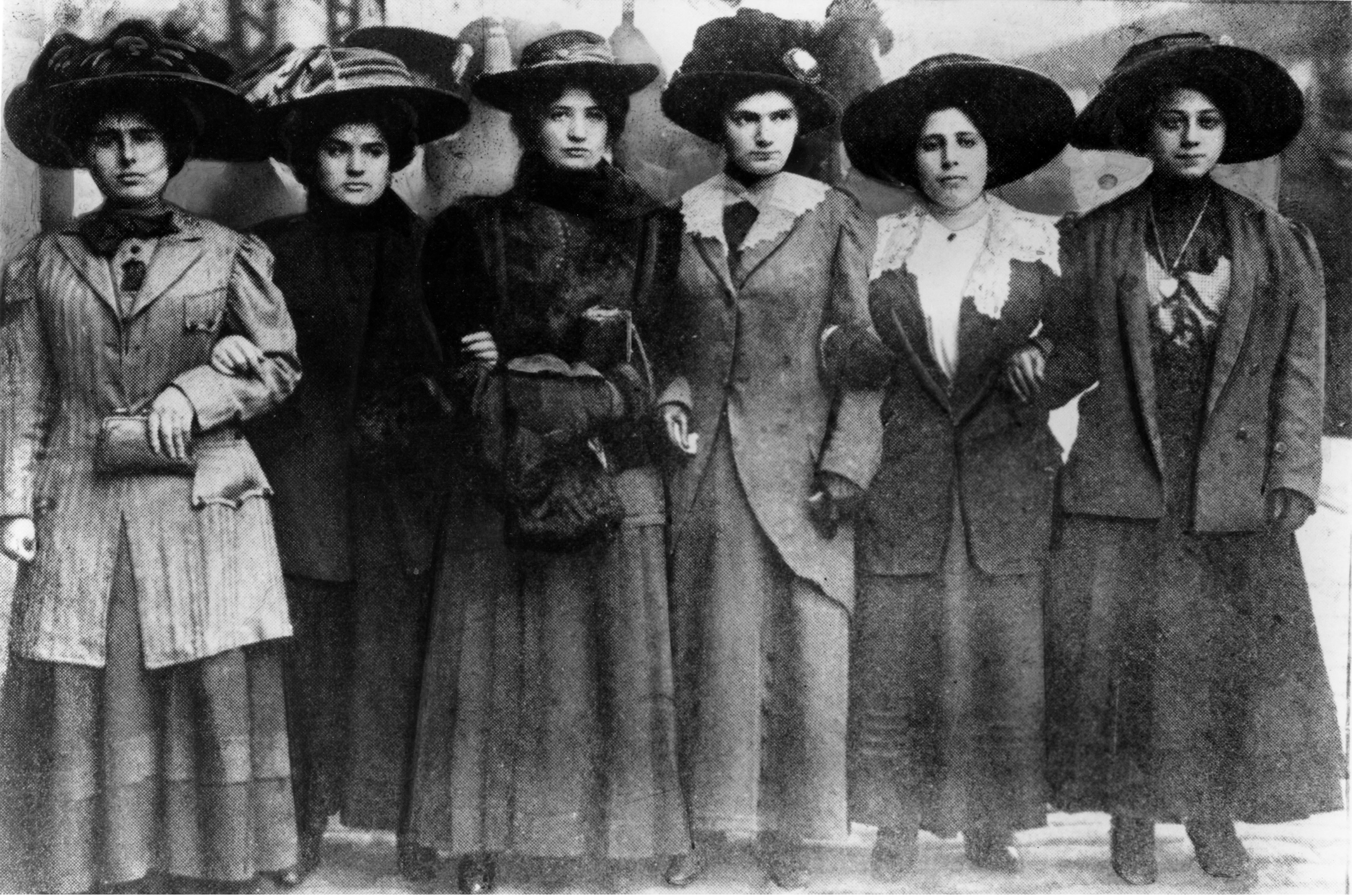 Title: Six women including Mary Dreier, Ida Rauh, Helen Marot, Rena Borky, Yetta Raff, and Mary Effers linked arm in arm in their march to City Hall during the shirtwaist strike to demand an end to abuse by police . Other shirtwaist strikers follow behind carrying a union banner, Dec. 3, 1909, 1909. Date: 12-03-1909 Photographer: Unknown Photo ID: 5780PB32F27B Collection: International Ladies Garment Workers Union Photographs (1885-1985) Repository: The Kheel Center for Labor-Management Documentation and Archives in the ILR School at Cornell University is the Catherwood Library unit that collects, preserves, and makes accessible special collections documenting the history of the workplace and labor relations. Notes: Individual identities and provided in records for 5780 P N45 #1189. No additional information available. Copyright: There are no known U.S. copyright restrictions on this image. The digital file is owned by the Kheel Center which is making it freely available with the request that, when possible, the center be credited as its source. Tags: Kheel Center for Labor-Management Documentation and Archives,Cornell University Library,Strikes, Women, Shirtwaist Makers, Banners, Int'l Ladies Garment Workers Union (1885-1985), Marches